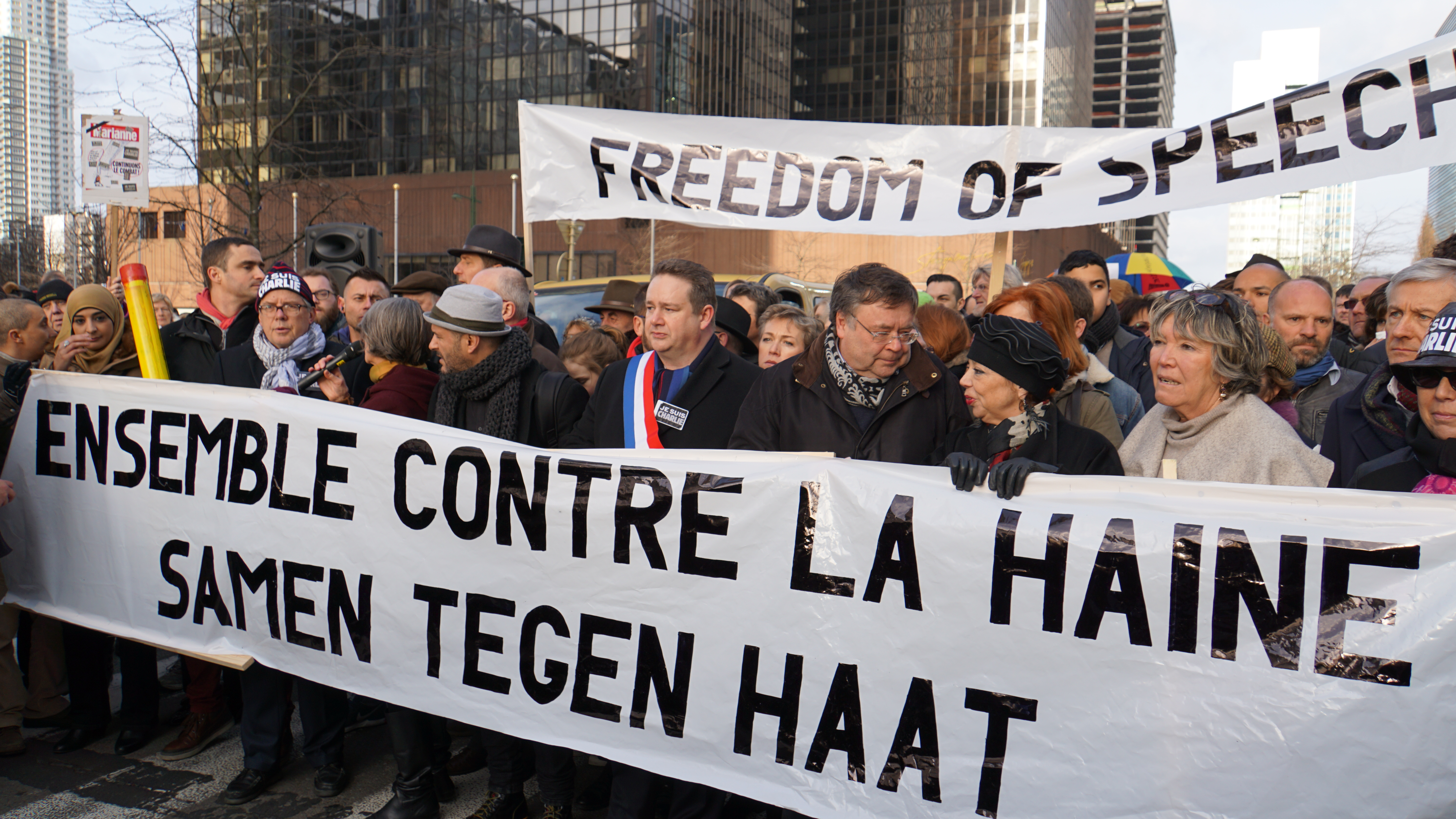 Brussels rally in support of the victims of the 2015 Charlie Hebdo shooting, 11 January 2015.